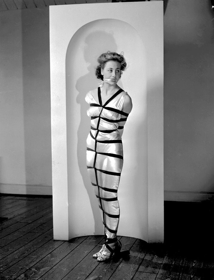 This photograph captures an Alternative Model in Newcastle, taken on the 22nd of January 1949. The collection is undeniably ahead of its time, the photographs are of an unusually dark and suggestive nature. Nothing is known of their purpose or the model in the photographs; they are simply referred to as ‘Mr Steinberg’s Model.’ The collection raises strong questions of an unknown Newcastle. Their dark and seductive content is suggestive of an underground and alternative scene with tones of theatrics and burlesque. This is a collection of photographs found in the Turners Collection at Tyne & Wear Archives. Turners Photography Ltd was a commercial photographic company based at 7-15 Pink Lane, Newcastle. Image reference: DT/TUR/2/2384/A This photograph is part of a larger collection that can be viewed here (Copyright) We're happy for you to share this digital image within the spirit of The Commons. Please cite 'Tyne & Wear Archives & Museums' when reusing. Certain restrictions on high quality reproductions and commercial use of the original physical version apply though; if you're unsure please